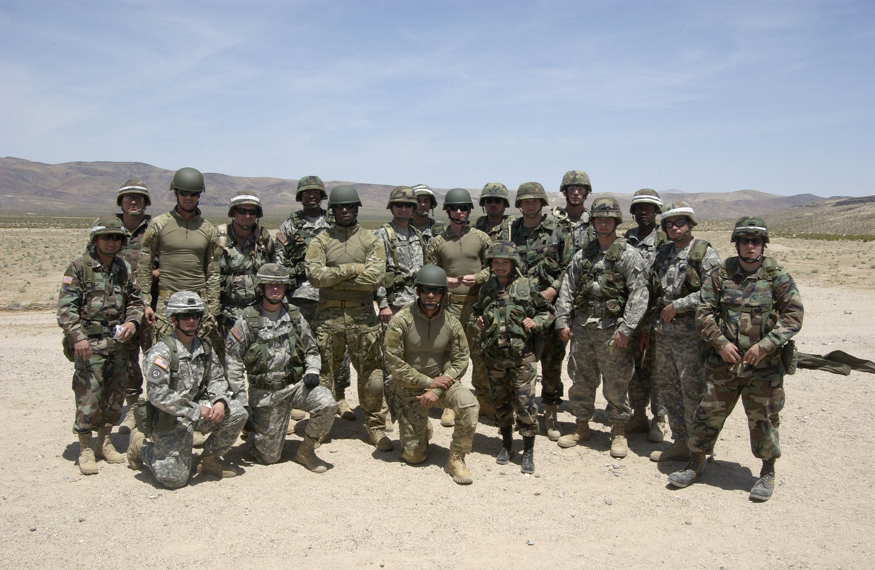 Actors Josh Duhamel, Tyrese Gibson, Amaury Nolasco and Zack Ward (all not in digital camouflage uniforms) pose with soldiers from the National Training Center Support Brigade on range 2 at Fort Irwin in May 2006. The four actors spent two days at the NTC preparing for their roles in the upcoming Michael Bay film Transformers.